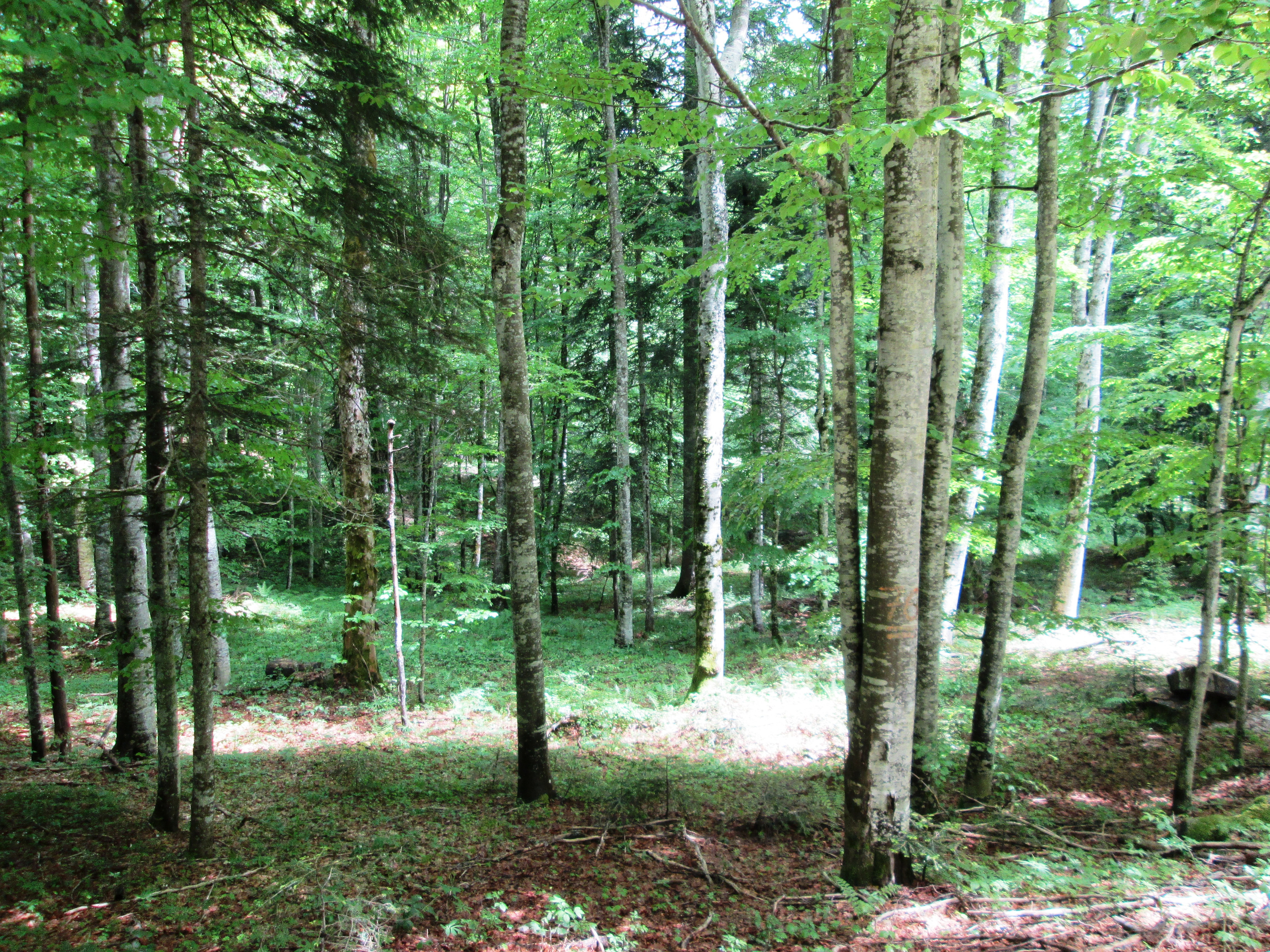 Forest in the Nature Park Velebit in Croatia.